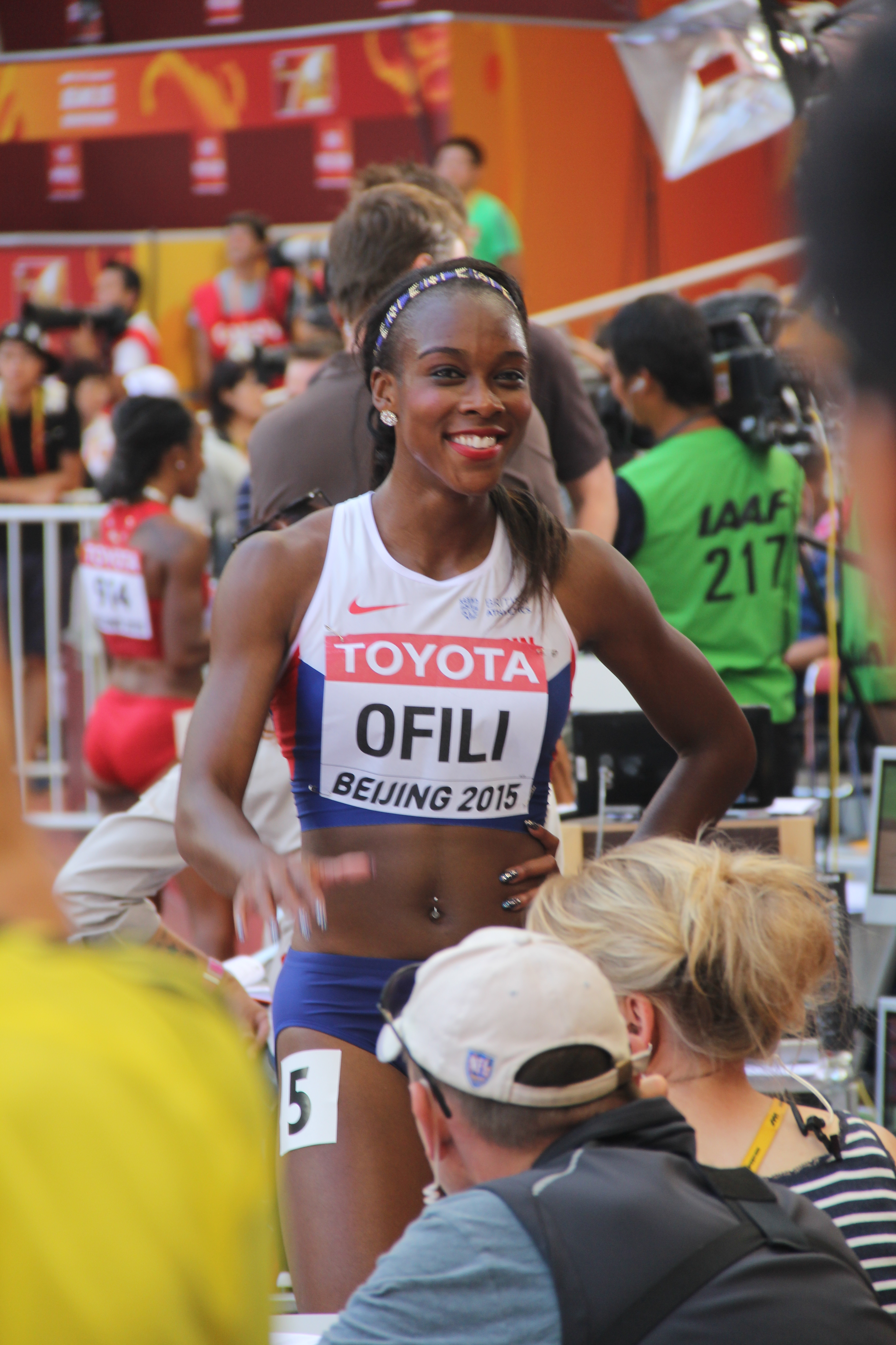 Cindy Ofili at 2015 World Championships in Athletics.